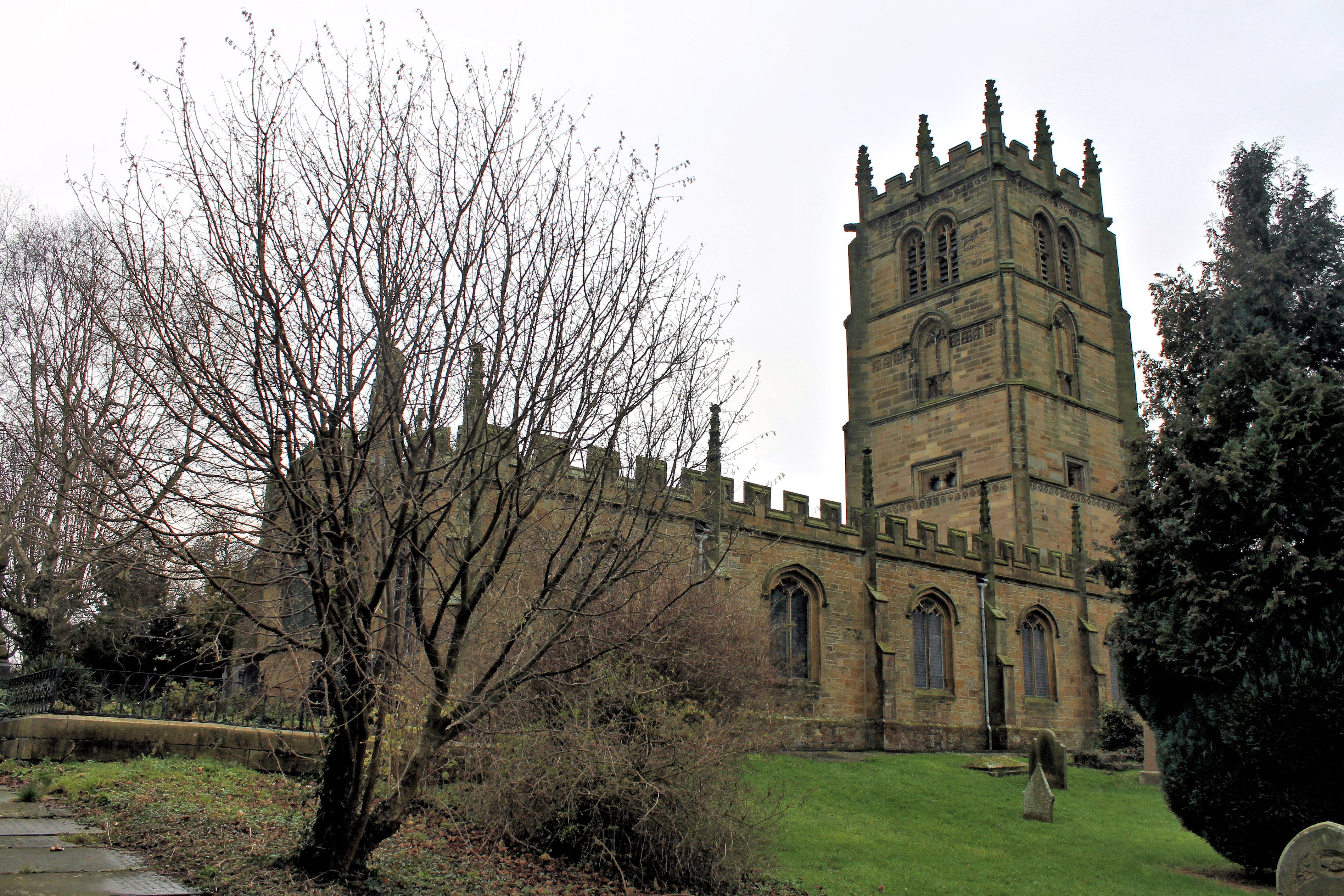 Church of St Eurgain and St Peter, Northop, Flintshire, North Wales. Grade: I, Date Listed: 6 November 1962, Cadw Building ID: 321.